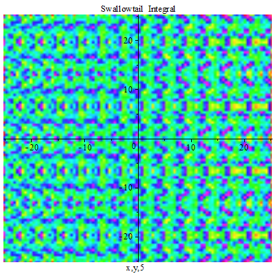 SwaIntegral Maple density plotllowtail